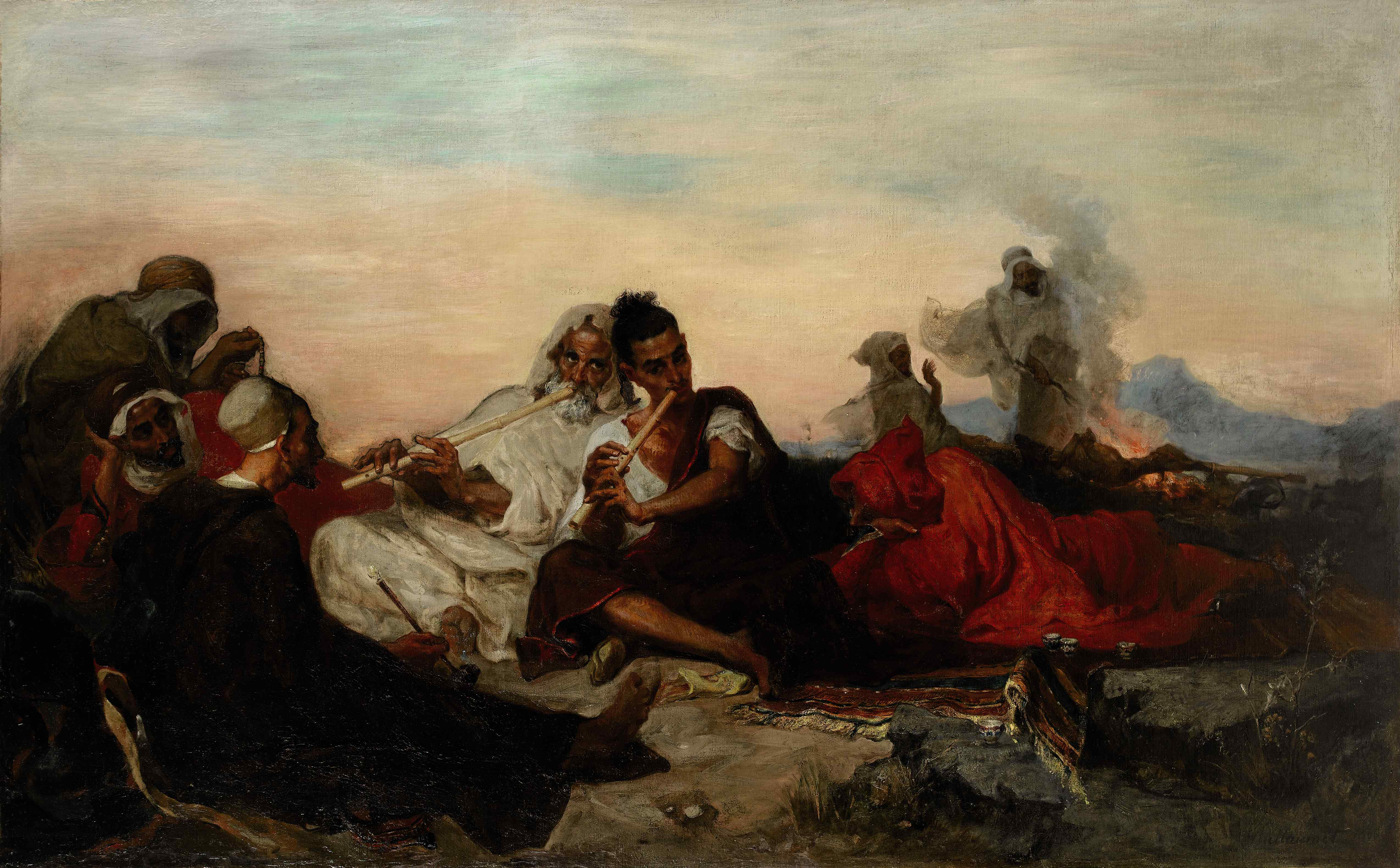 Flute players in bivouac, signed and dated, Oil on Canvas 100x160 cm Ger Eenens Collection the Netherlands